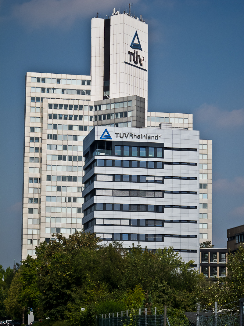 TUV Rheinland Headquarters in Cologne, Germany